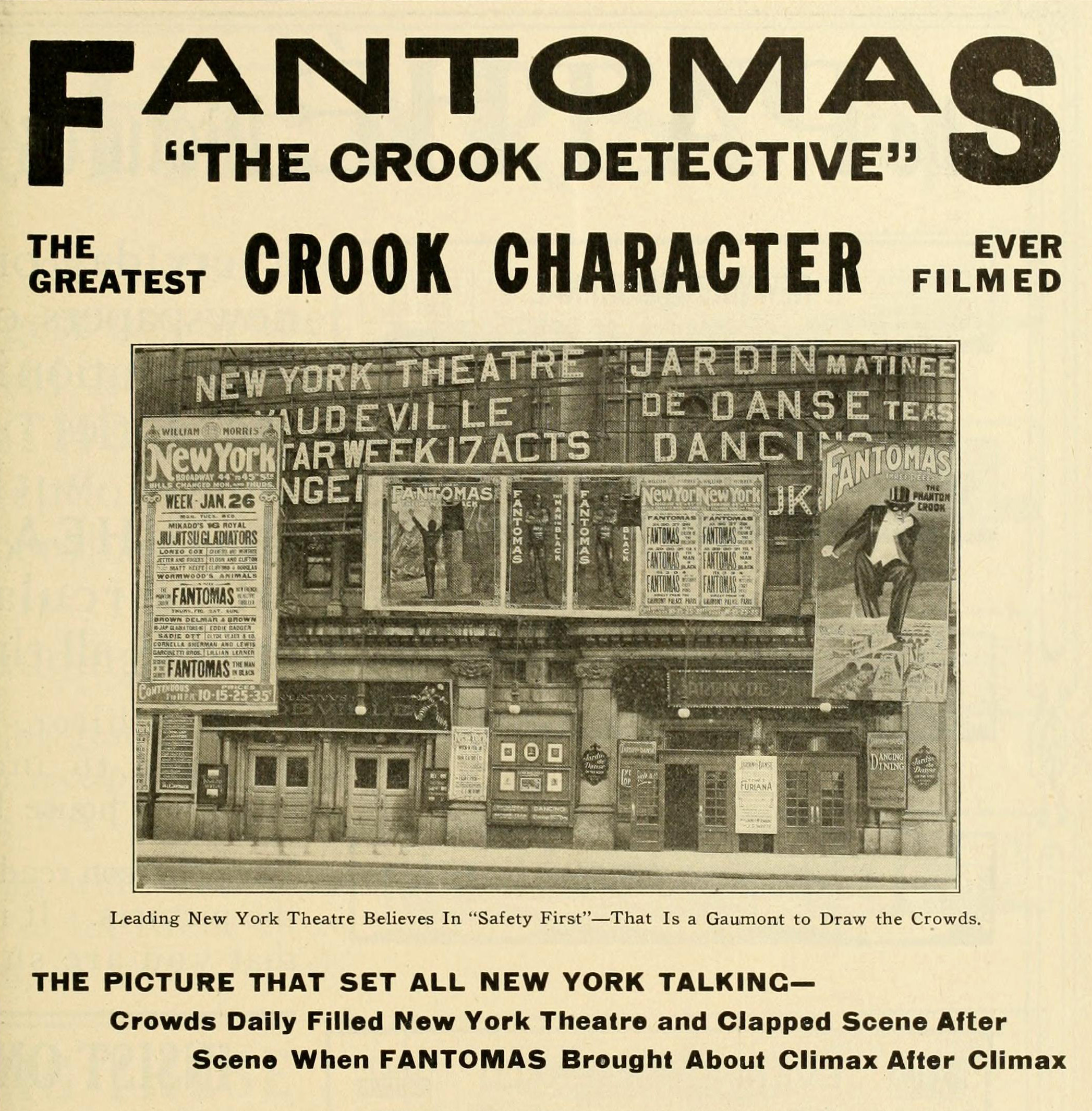 Advertisement in The Moving Picture World for Fantômas (1913).